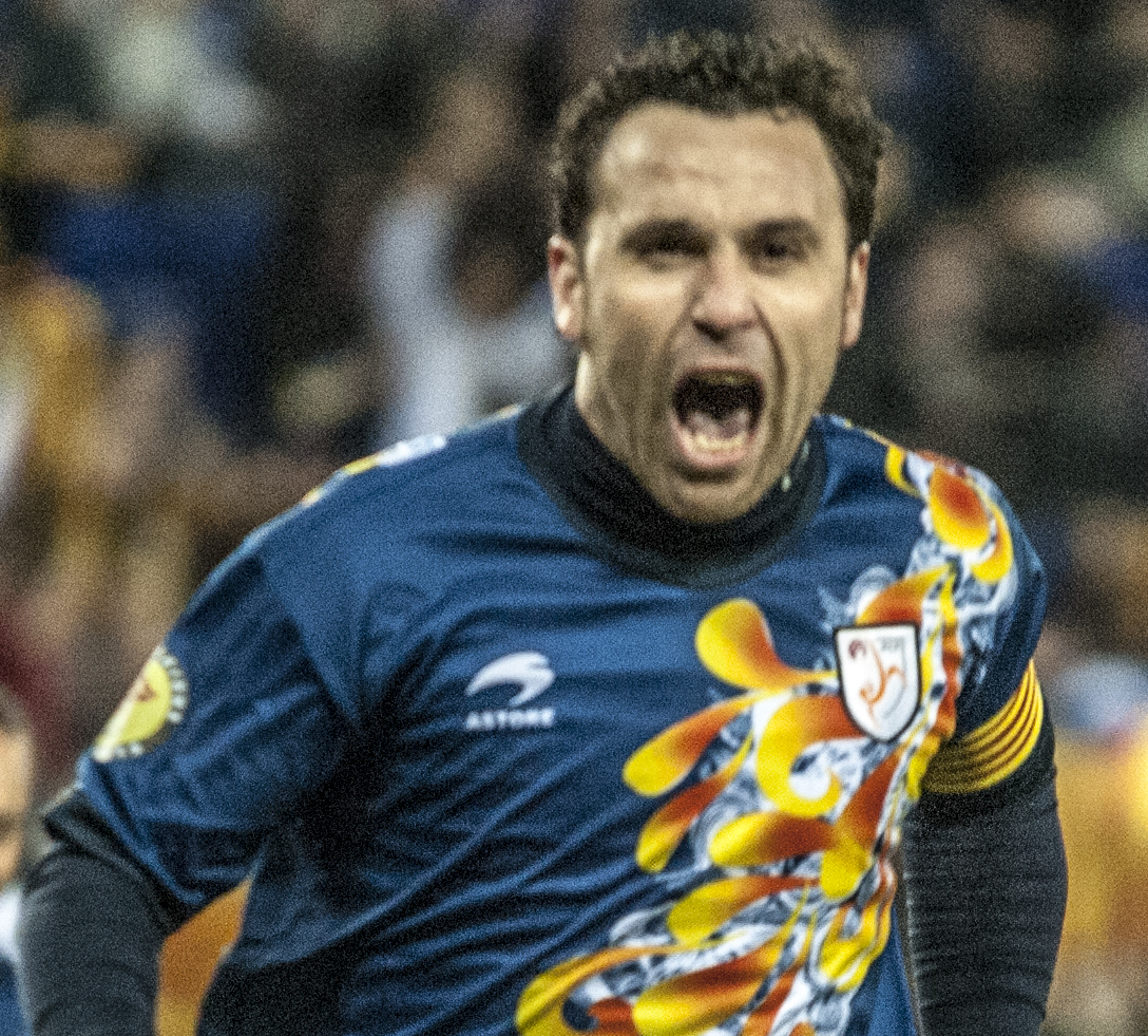 Sergio González celebrates after scoring in friendly match Catalonia vs. Nigeria